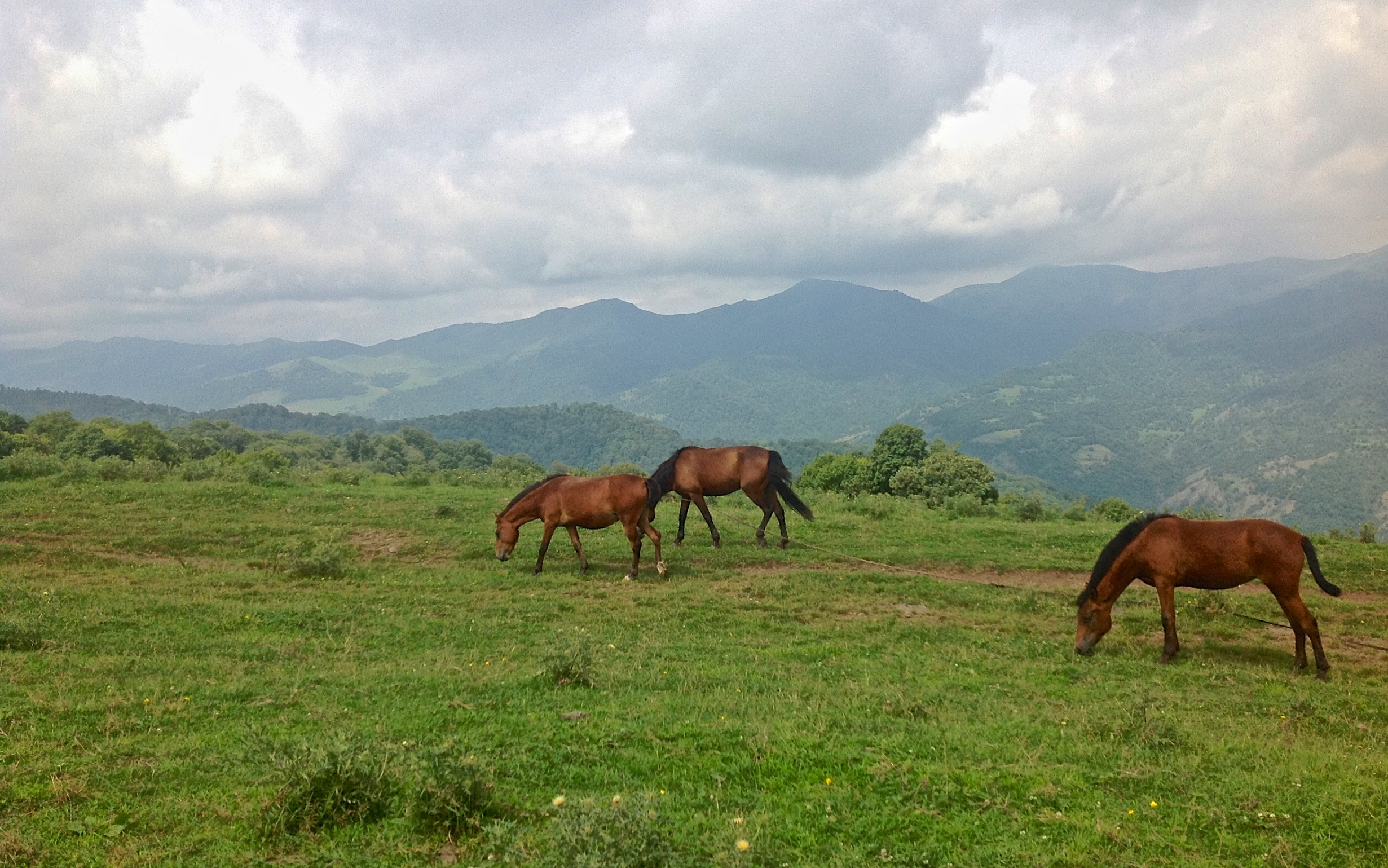 Horses at Goygol National Park 3